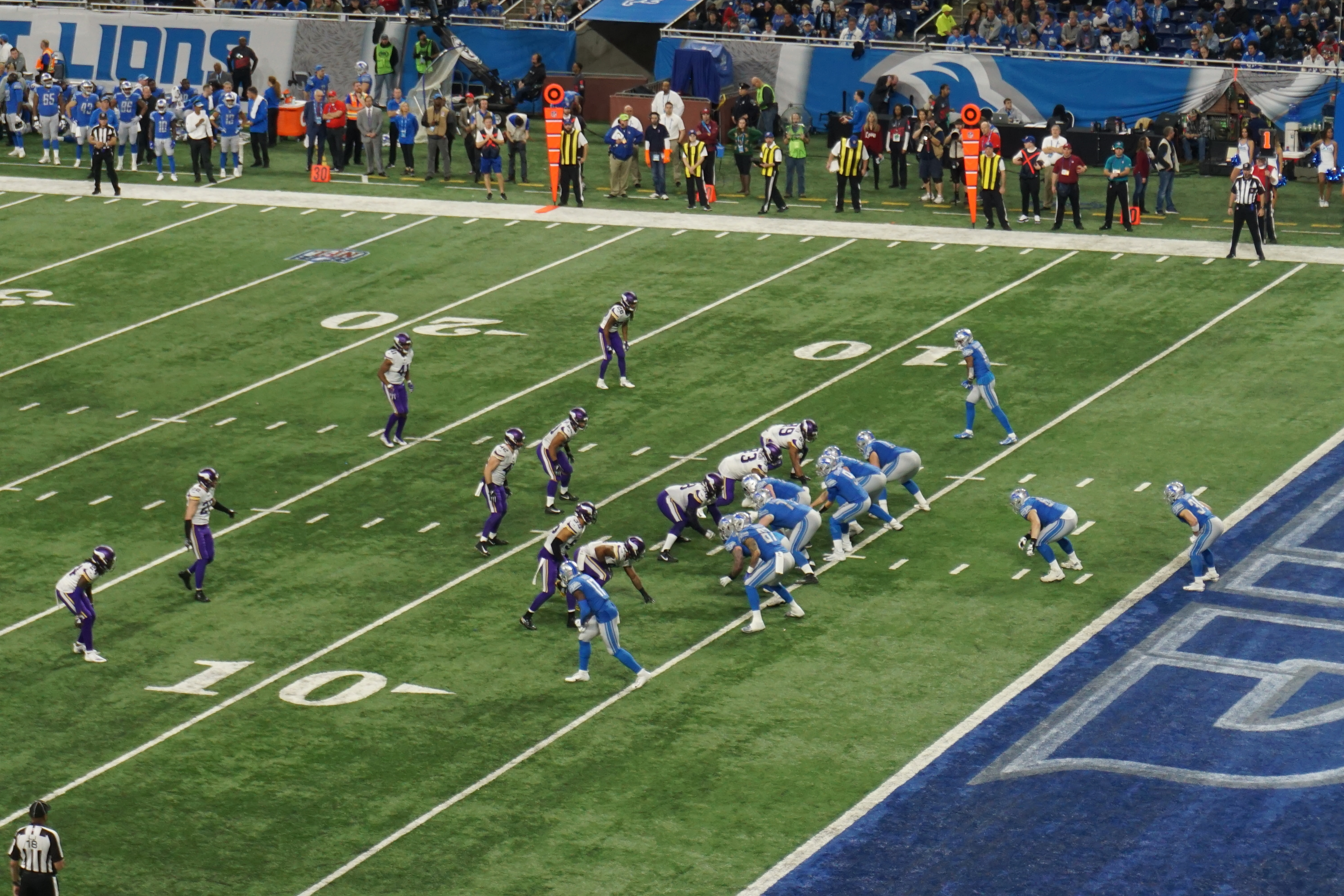 Detroit on offense during the Minnesota Vikings vs. Detroit Lions game at Ford Field in Detroit, Michigan (United States). Minnesota won 27–9.